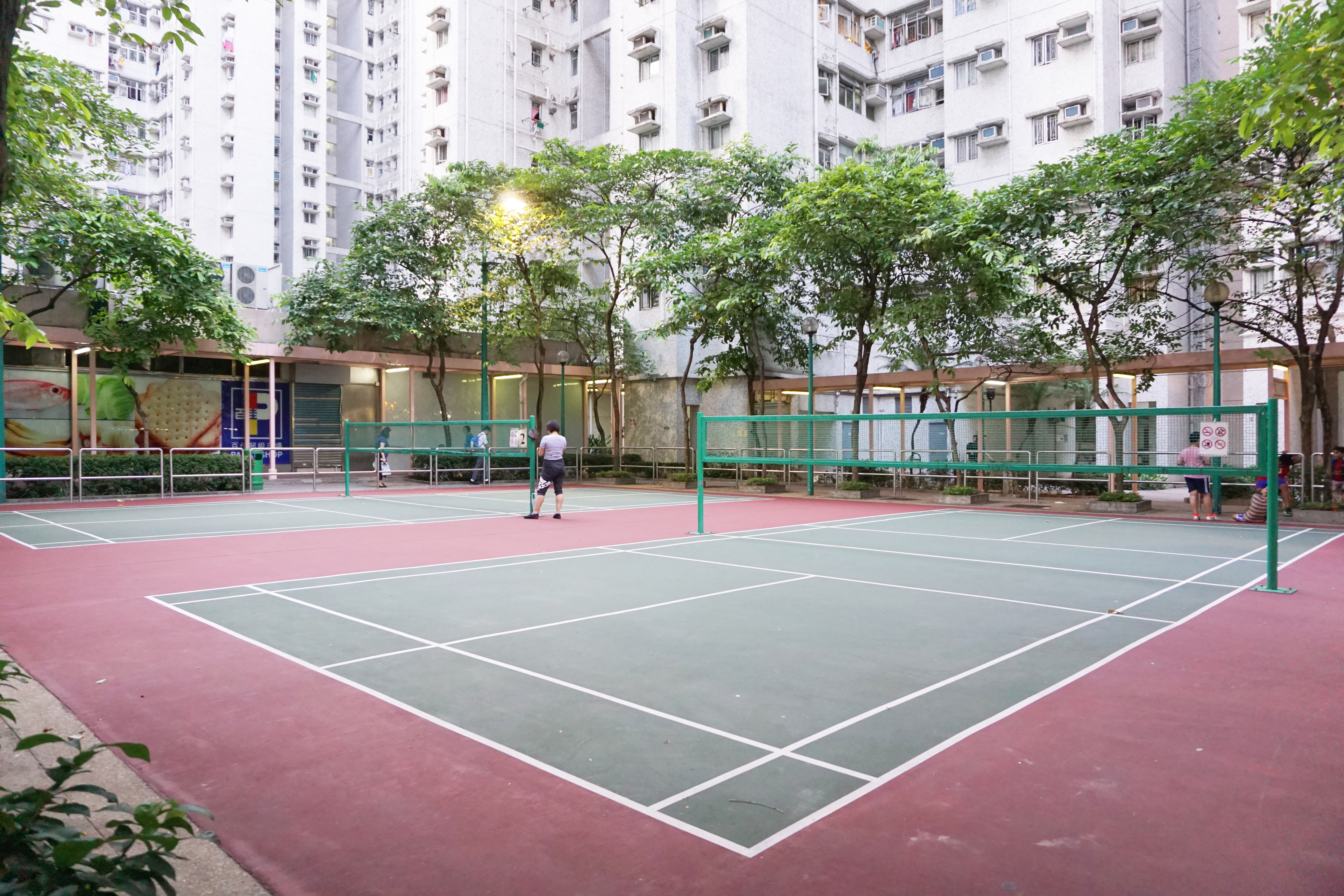 Charming Garden in Mong Kok, Hong Kong.